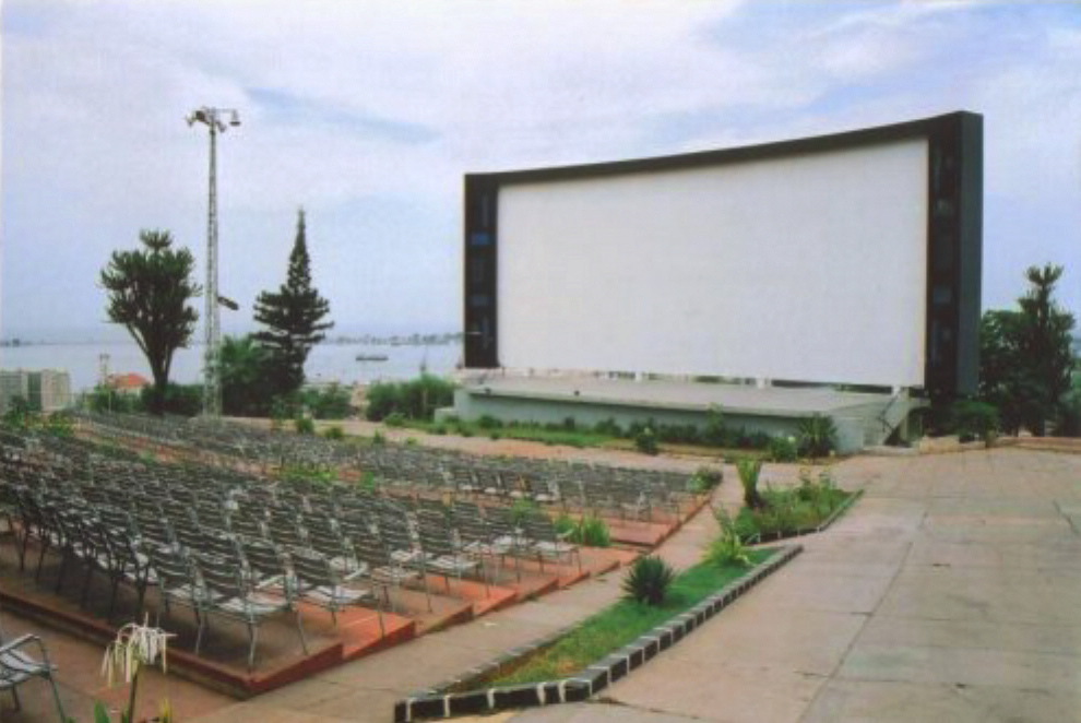 Open air cinema "Miramar" in Luanda, Portuguese-Angola